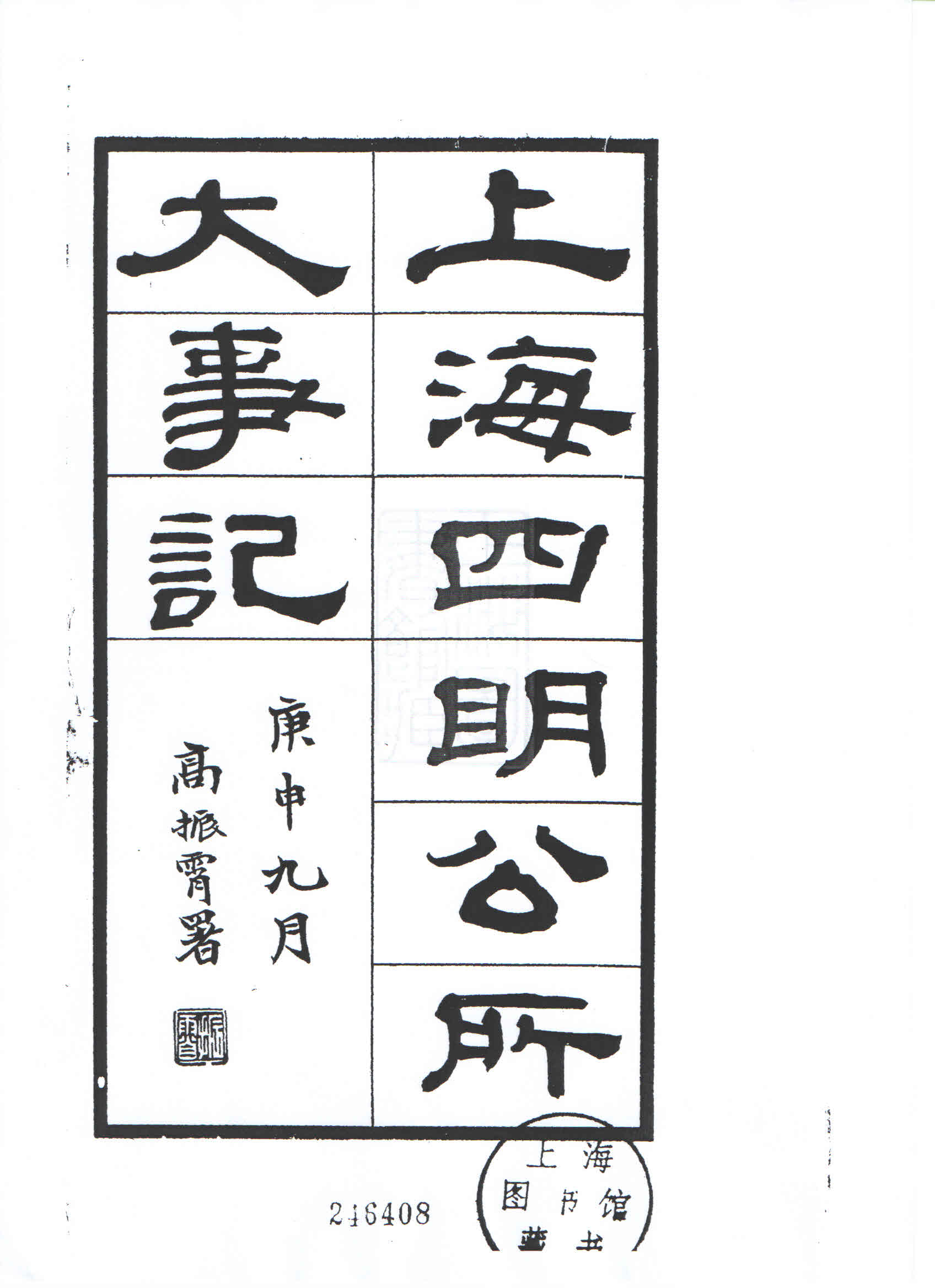 The Chronicle of Shanghai Si-Ming Guild